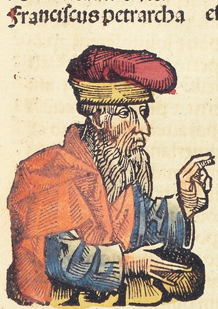 Woodcut from the Nuremberg Chronicle (Latin edition in Sao Paulo)